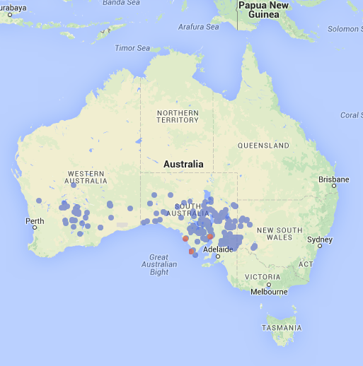 Distribution of bolam's mouse in Australia